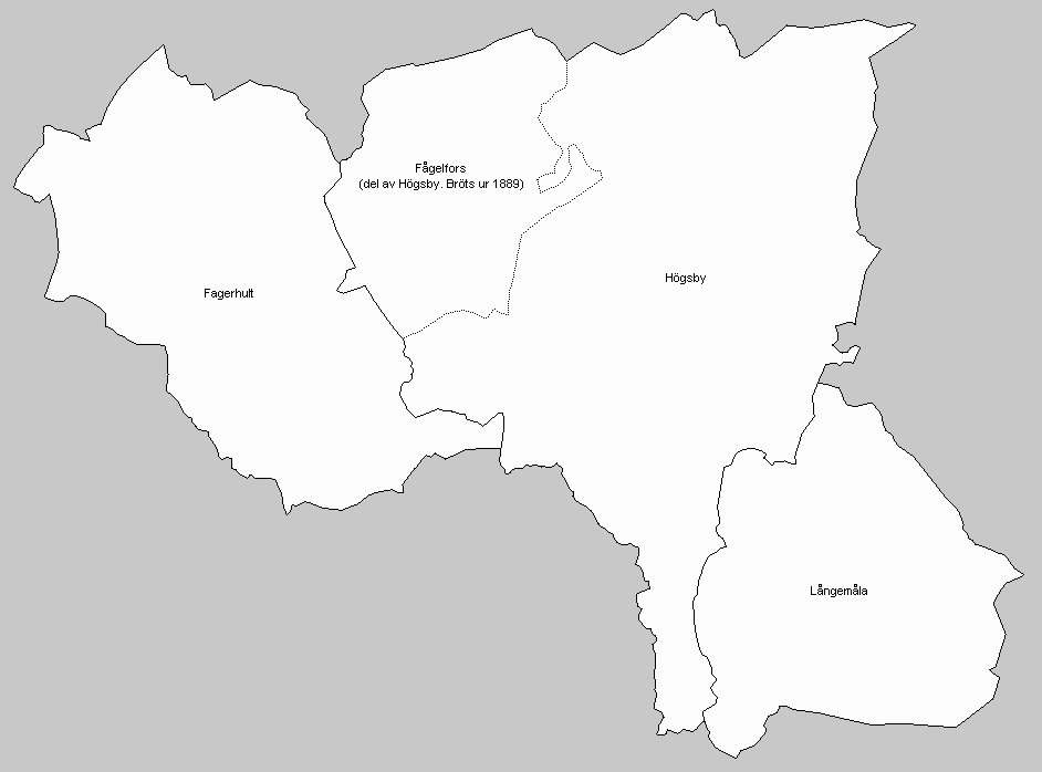 Parishes in Högsby municipality